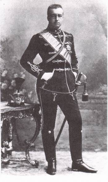 Prince Leopold Clement of Saxe-Coburg and Gotha in Hussar uniform